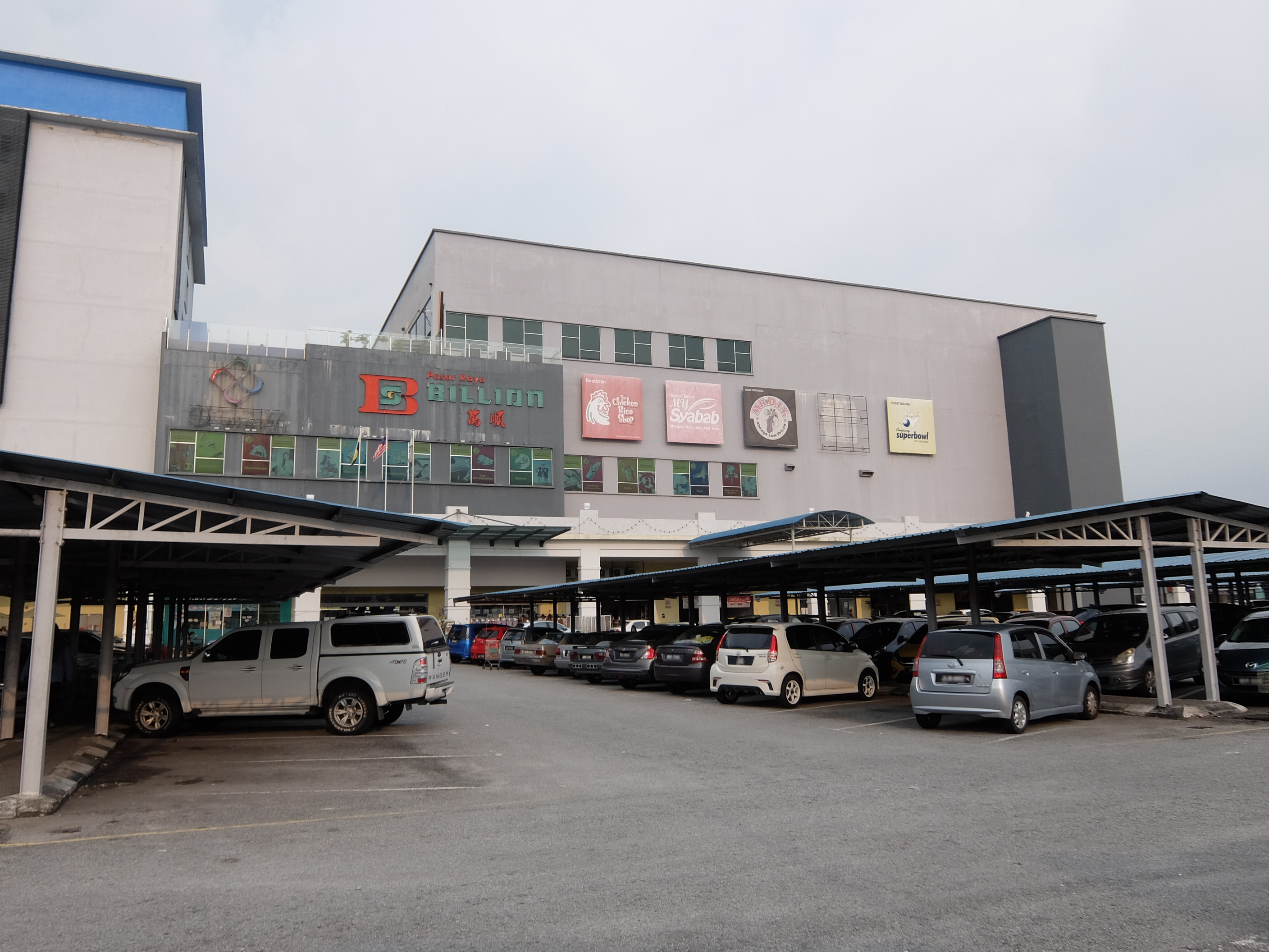 D Mall, Seri Iskandar, Perak Tengah, Perak, Malaysia